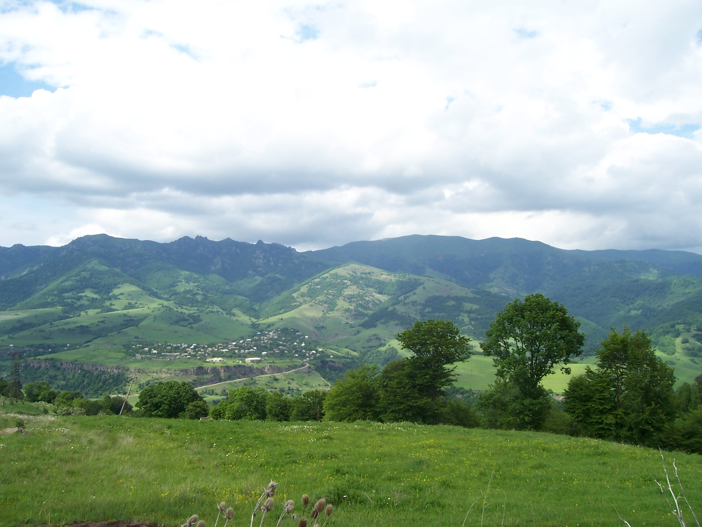 View from Dsegh